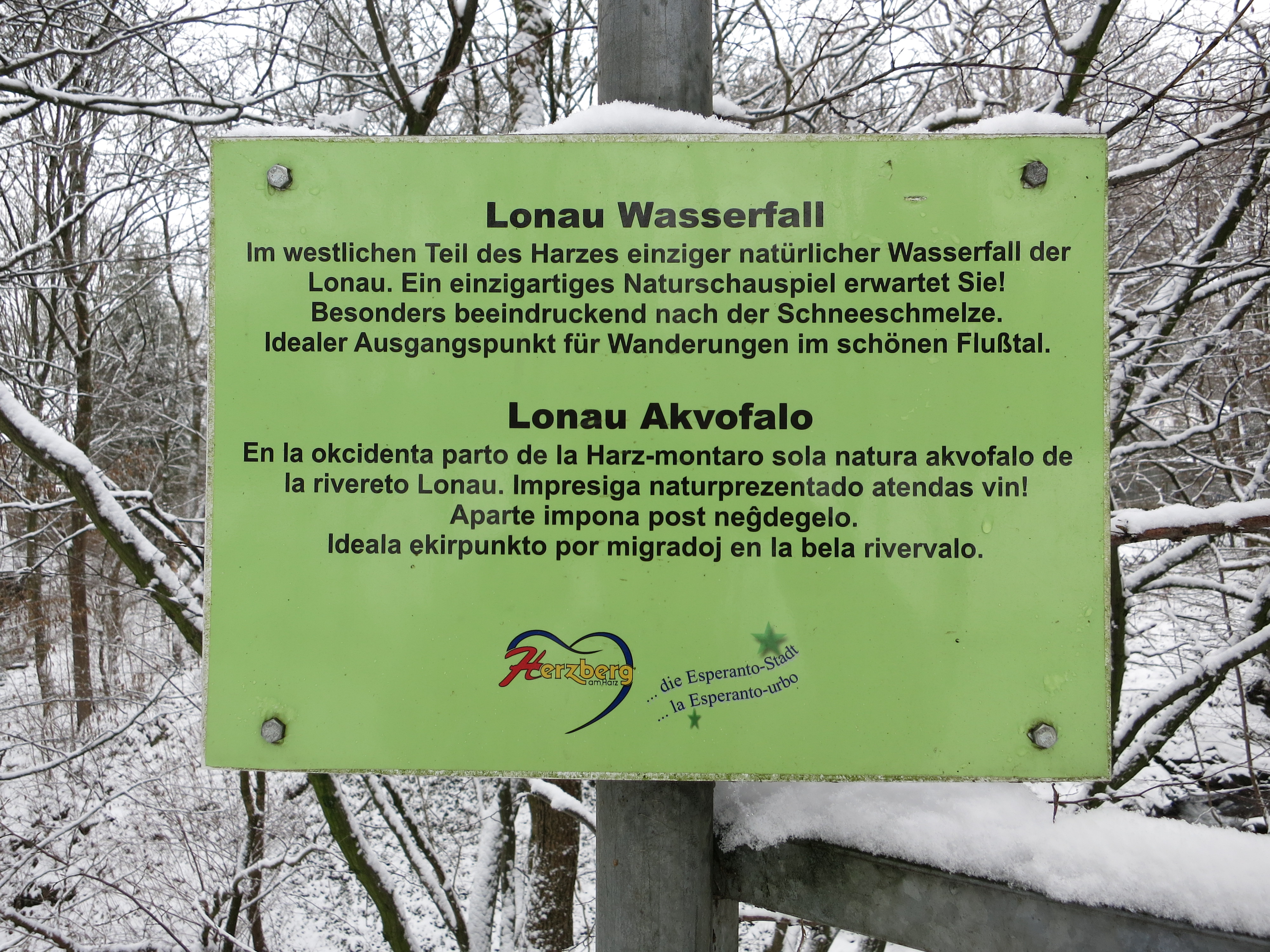 Bilingual sign (German / Esperanto) in Herzberg am Harz